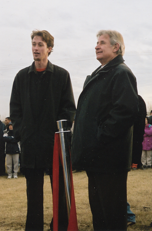 Artist Ryan McCourt and Alberta Premier Ralph Klein attend the unveiling of McCourt's sculpture, "A Modern Outlook".